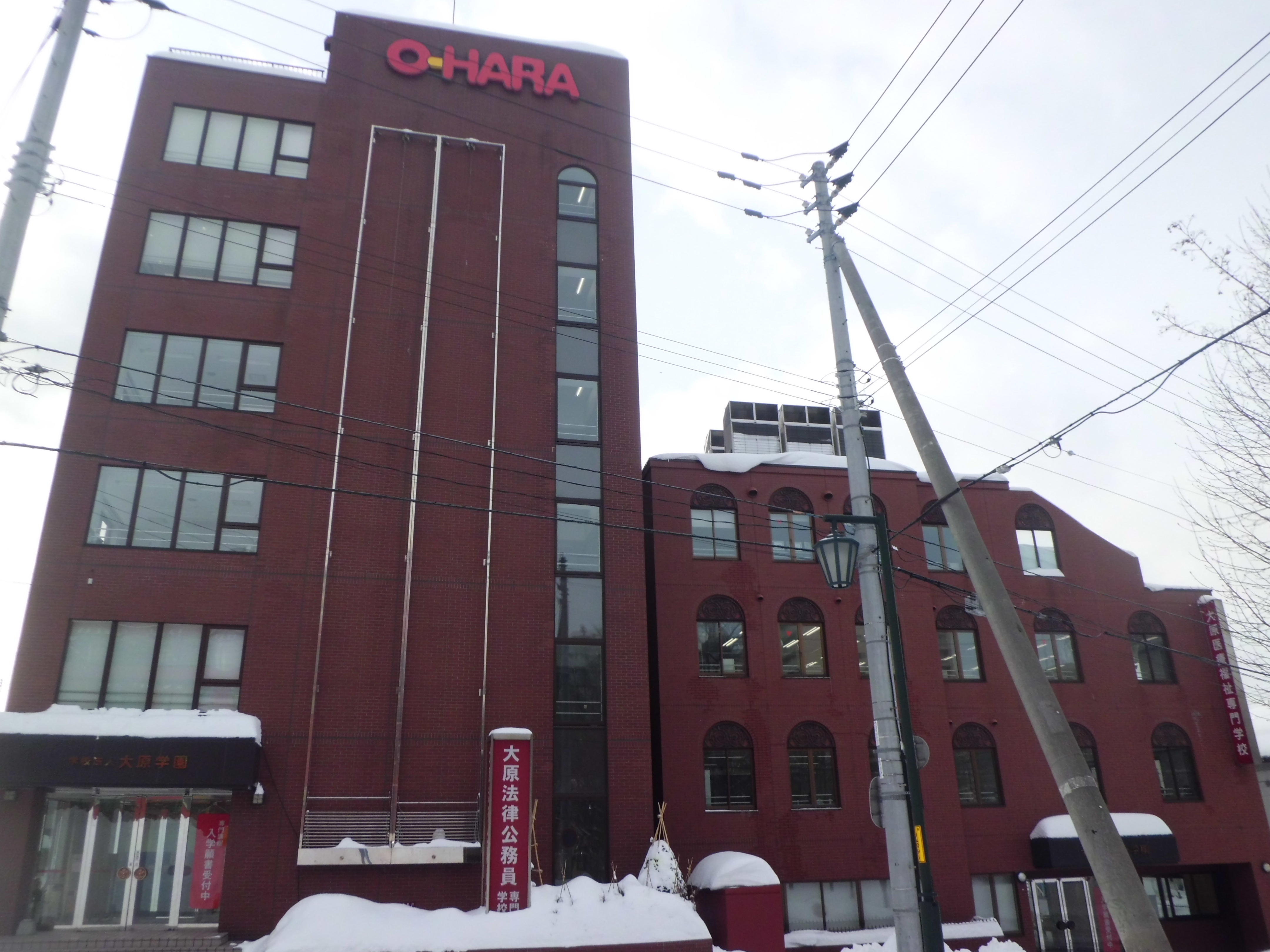 Ohara College of Low & Government Official (left), Health and Welfare (right).